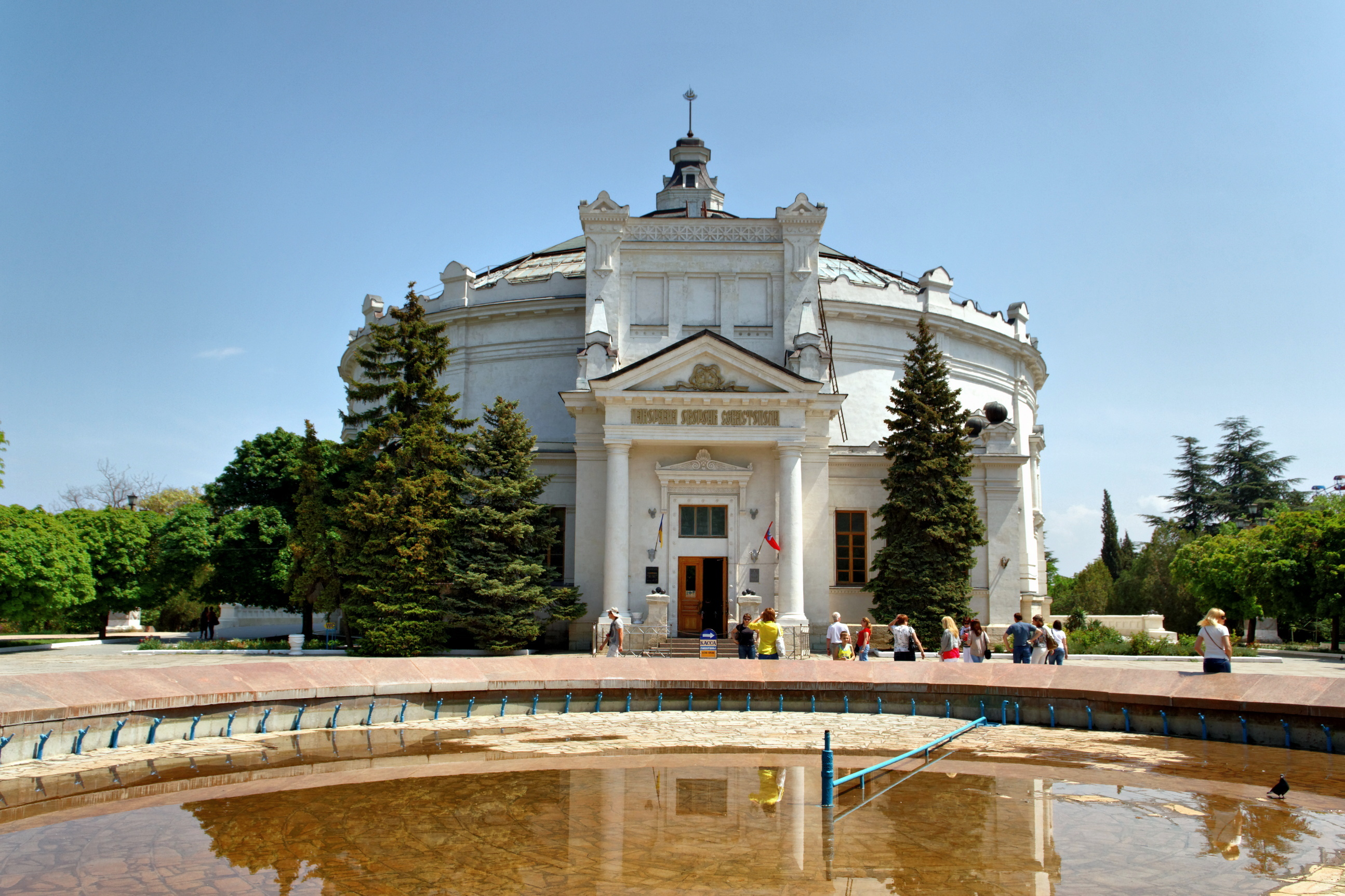 Sevastopol. Building of museum panorama "Defence of Sevastopol 1854-1855"